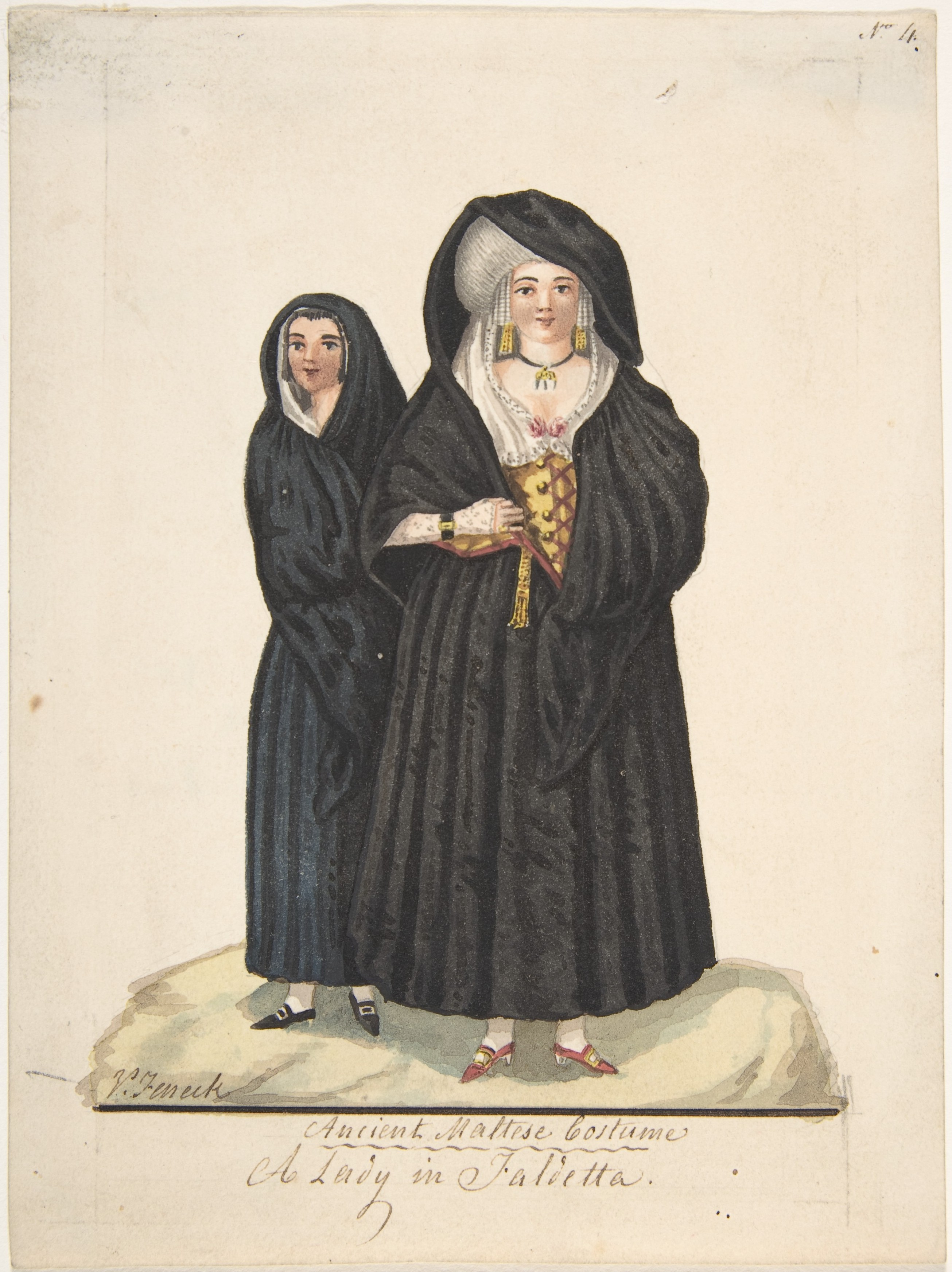 Drawing ; Ornament and architecture; Drawings